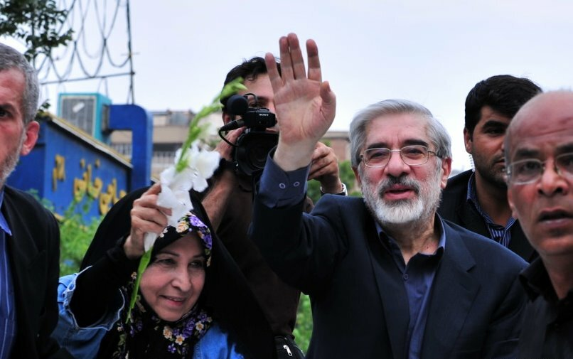 Silent demonstration for saying condolence to family of this week martyrs A lot more photos from this day: [1] Viva Iran!